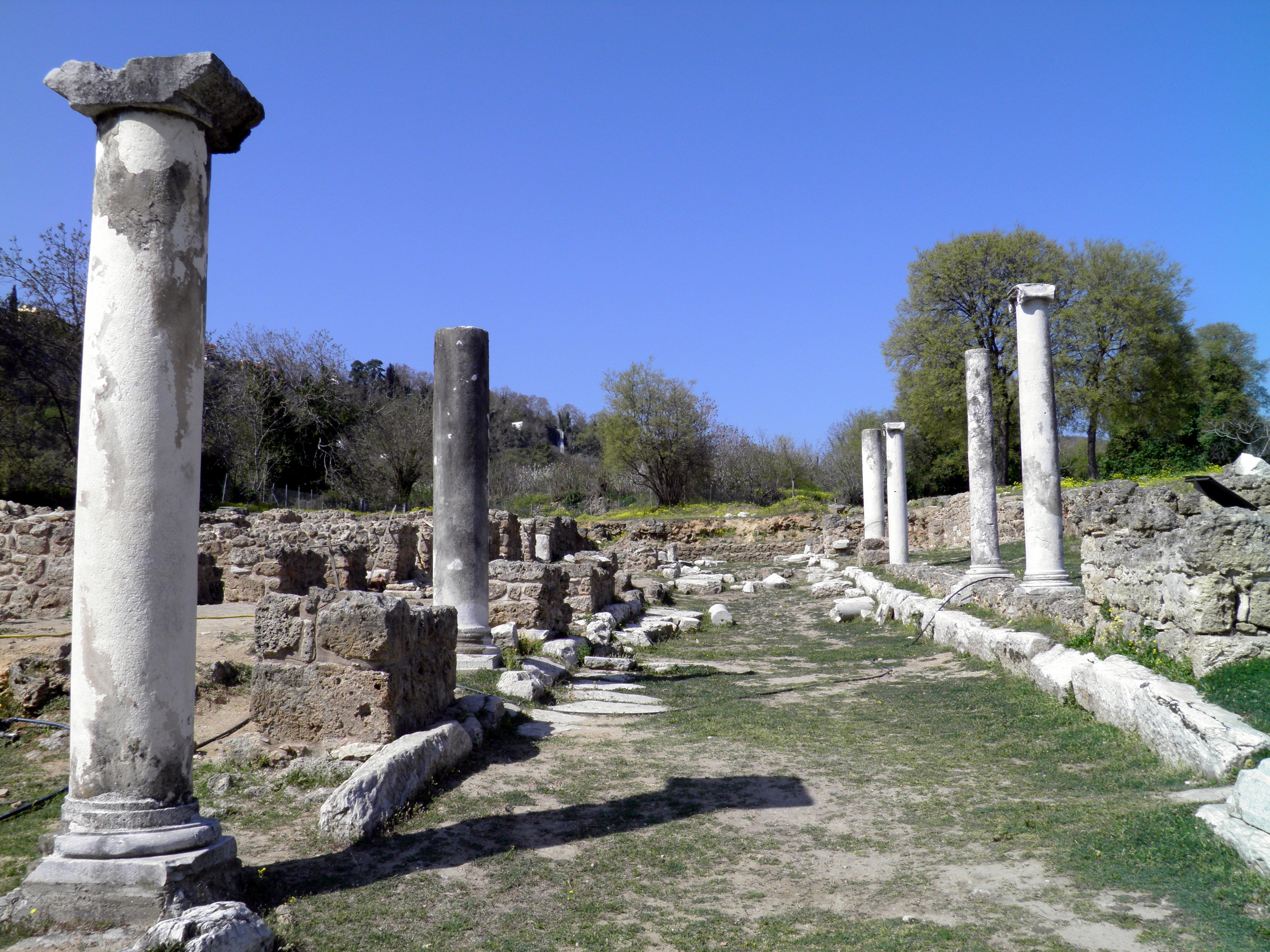 This central avenue ran between the city's nothernand southern gates. This road was flanked by covered galleries (stoai), 5,20m wide, their roofs supported by pillars and columns. Feeding into this central avenue were the side streets (3,50m wide) and narrower lanes that framed the urban blocks of buildings, most of which date from the Early Christian period. The ground floor rooms of these buildings, with entrances from the covered galleries and storage jars in the interior, were commercial premises, with living quarters on the floors above. One of these shops proved to have been a glassmaker's workhop.